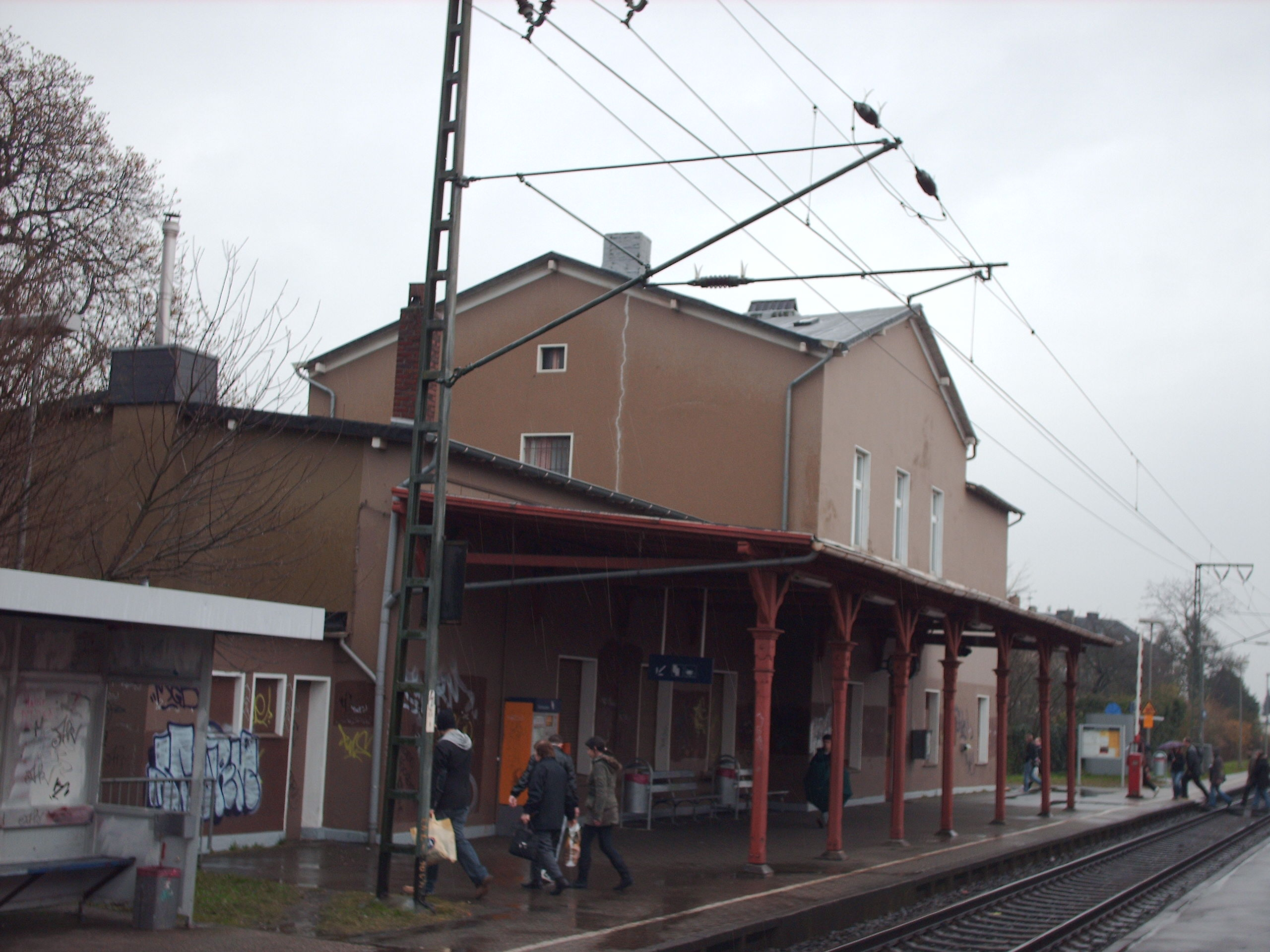 Wickrath station, Mönchengladbach, Germany check usage